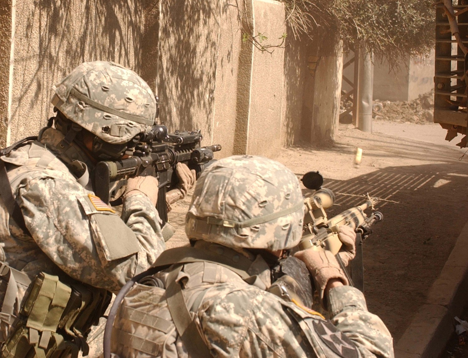 Sgt. Karl King and Pfc. David Valenzuela lay down cover fire while their squad maneuvers down a street from behind the cover of a Stryker combat vehicle to engage gunmen who fired on their convoy in Al Doura, Iraq, March 7. The Soldiers are from Company C, 5th Battalion, 20th Infantry Regiment, 3rd Brigade Combat Team, 2nd Infantry Division. U.S. Army photo by Staff Sgt. Sean A. Foley